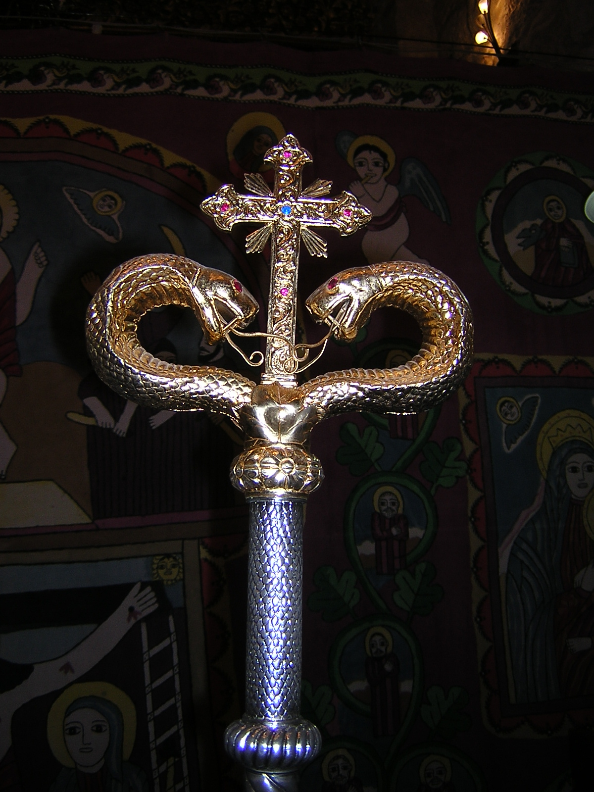 báculo do bispo siríaco de Xerusalén